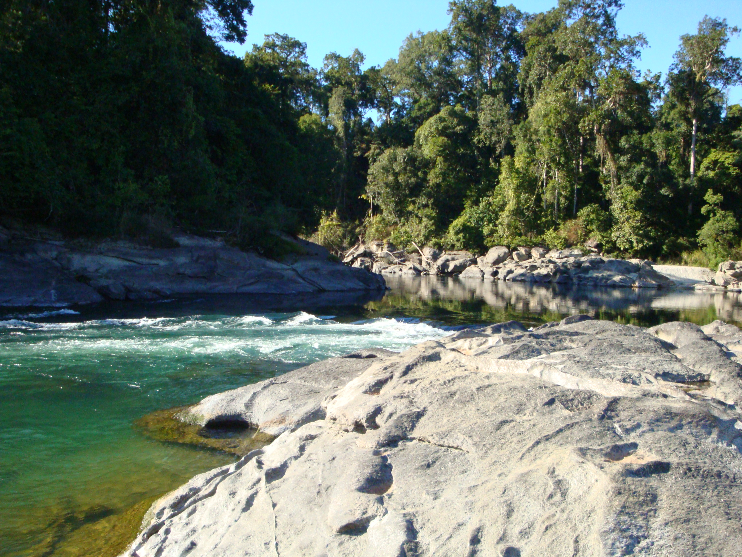 Malikha River, Northern Kachin State.